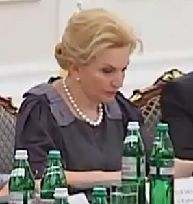 Raisa Bogatyrova, Ukrainian politician, Minister of Health of Ukraine